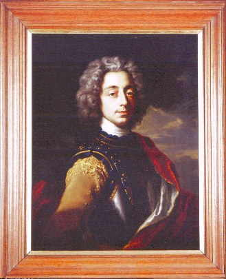 Portrait of Count Unico Wilhelm van Wassenaer (1692-1766)